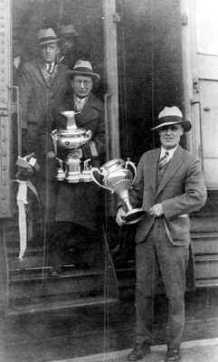 Scotty Stewart, Steve Vain and Phat Wilson return to Port Arthur, Ontario with the Allan Cup.